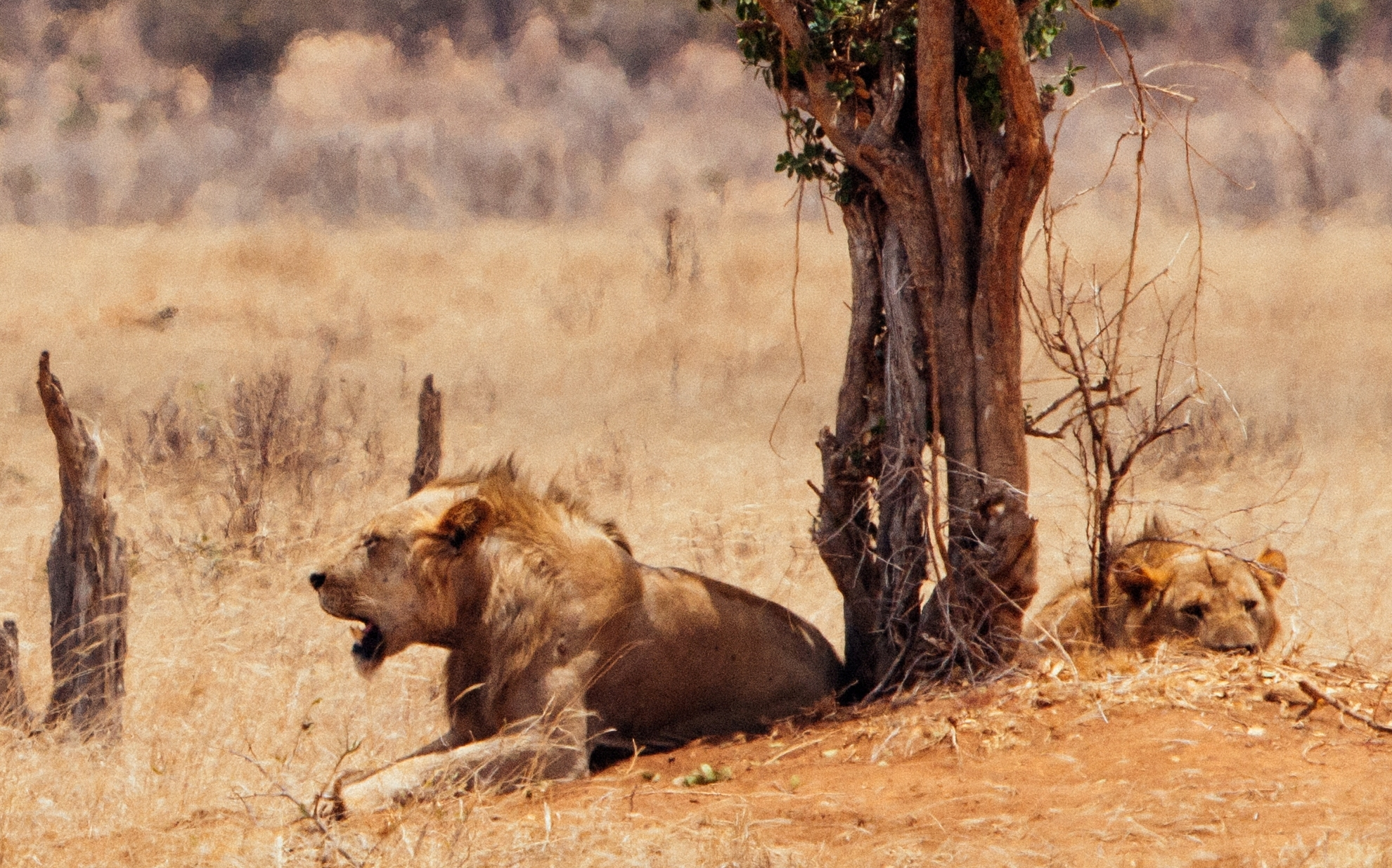 Two male lions with weak mane development in Tsavo, Kenya.